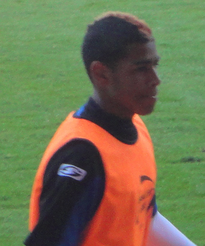 Onel Hernández, german football player, in 2011.